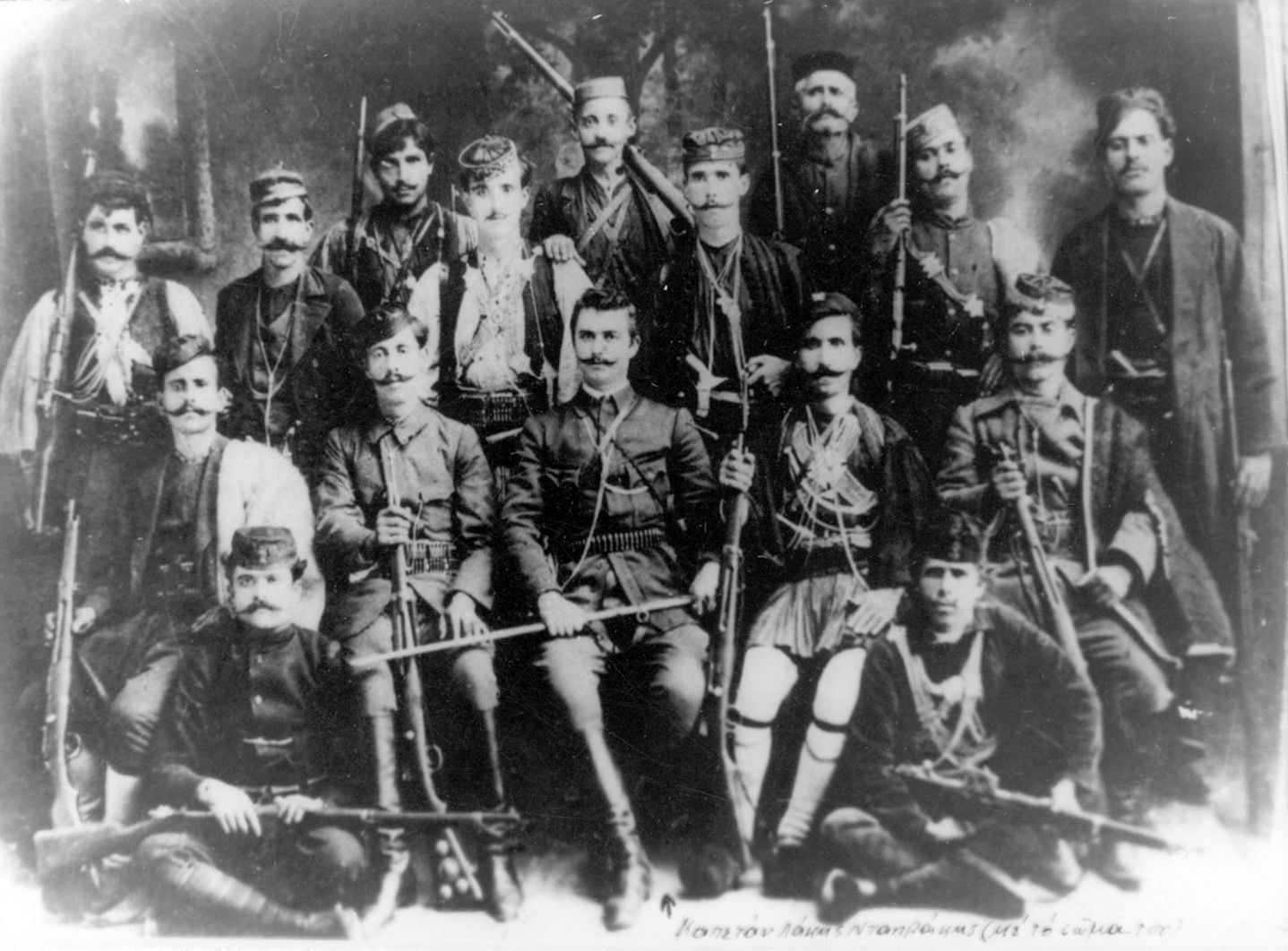 Lakis Dailakis and his band